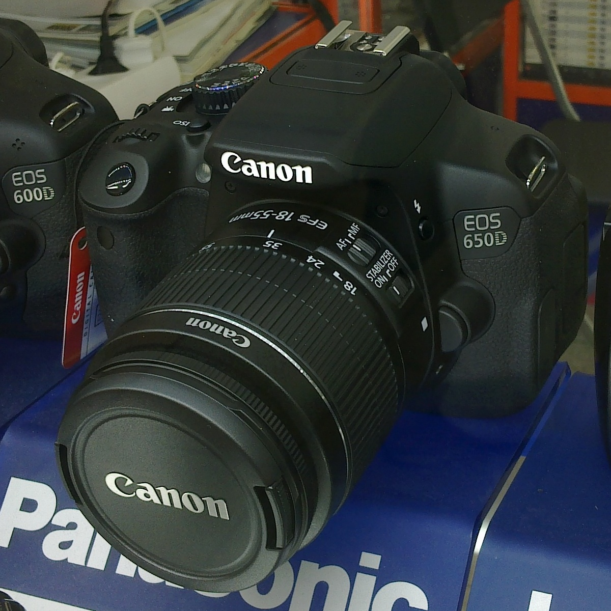 Canon EOS 650D in a show-case.